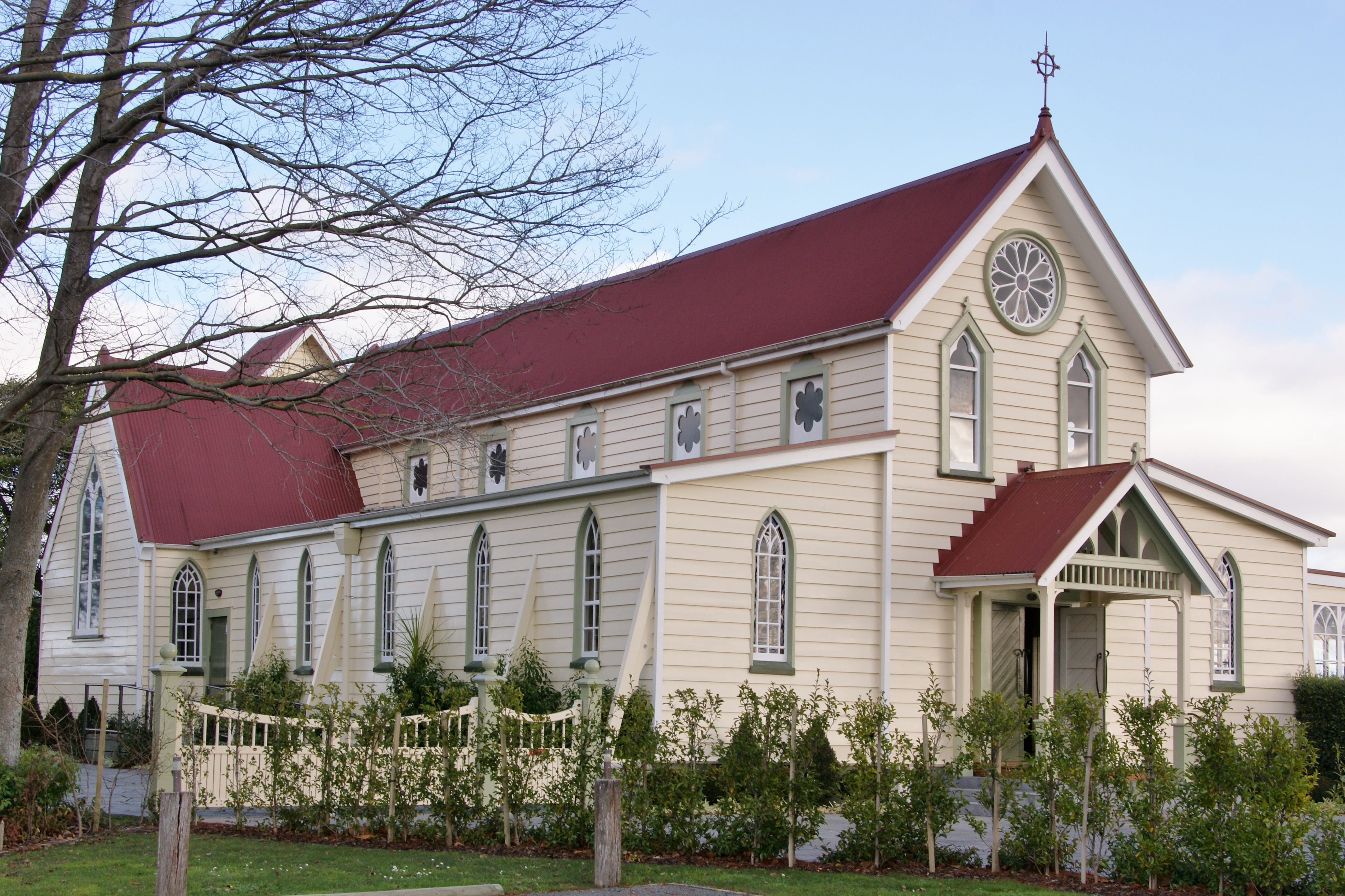 St Marys Church, Taradale, New Zealand. Now a restaurant called The Church, Meeanee. New Zealand Historic Places Trust Register number: 1033.